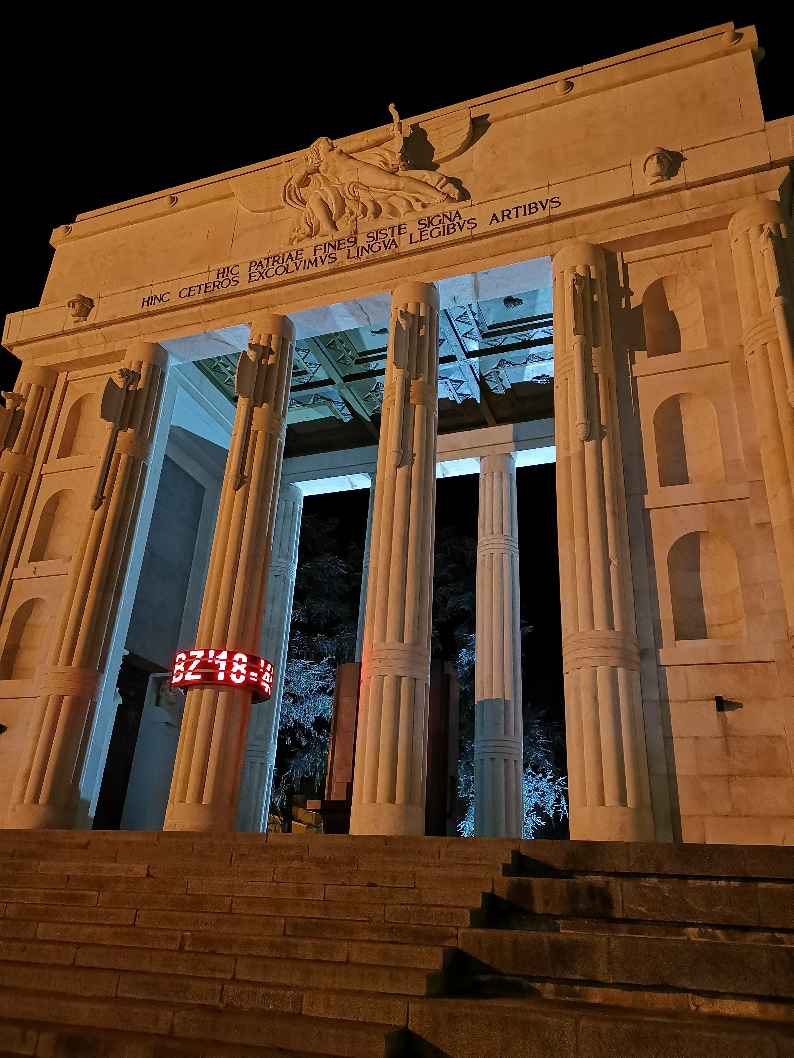 Bozen-Bolzano's Monument to Victory from 1928 by night